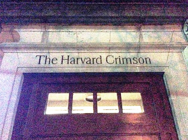 the Harvard Crimson